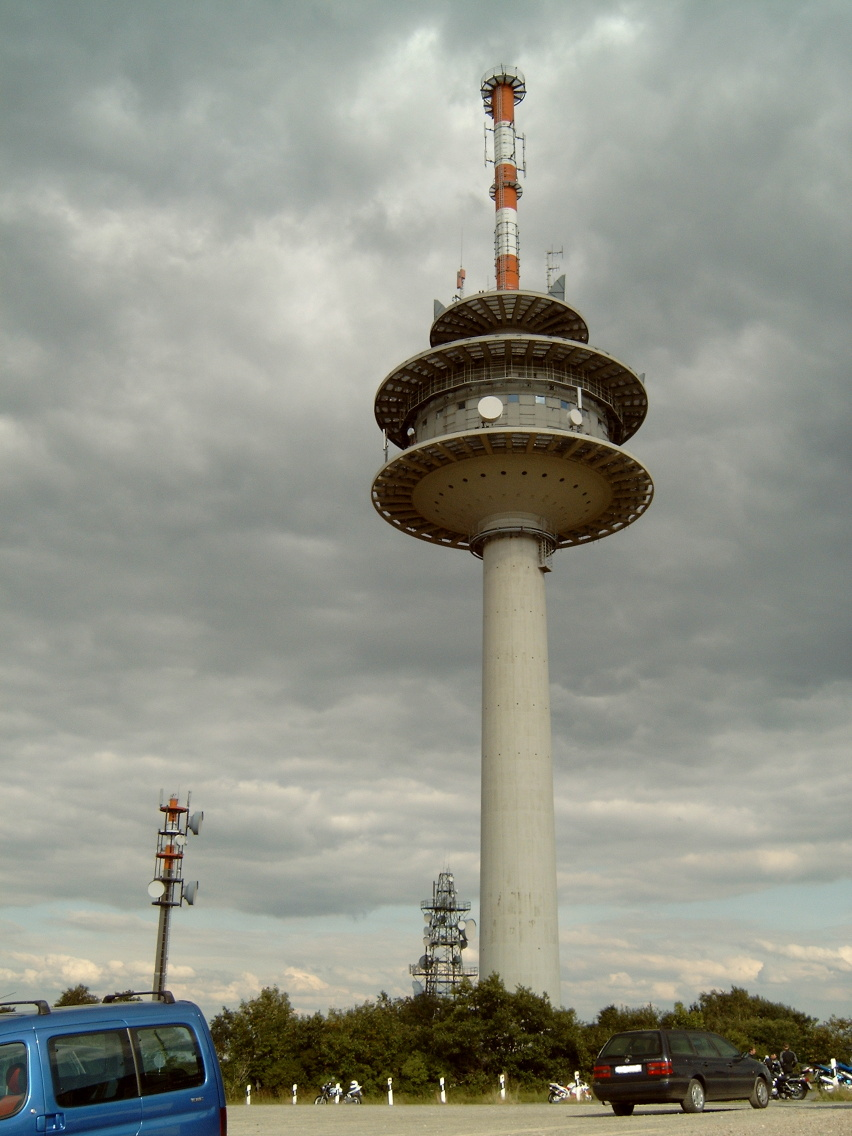 "Köterberg", radio tower and telecommunications installations